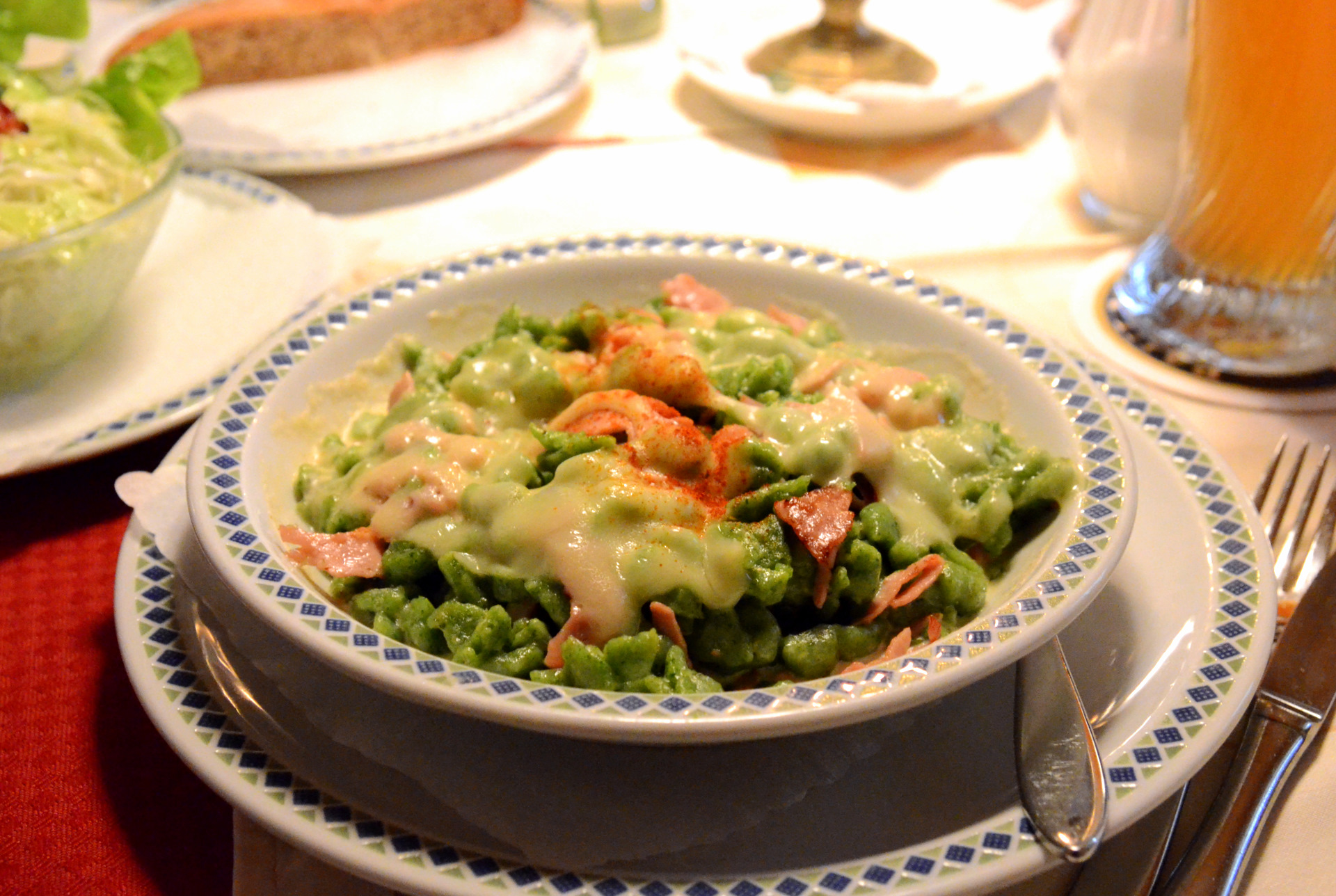 Spinatspatzeln (Tirolean dialect) or Spinat Spätzle (German) are a variety of Spätzle from Southern Tyrol. It contains spinach as one of the ingredients of the noodle. This version is served with cheese and ham. At a South Tirolean restaurant in Herrsching, Bavaria.